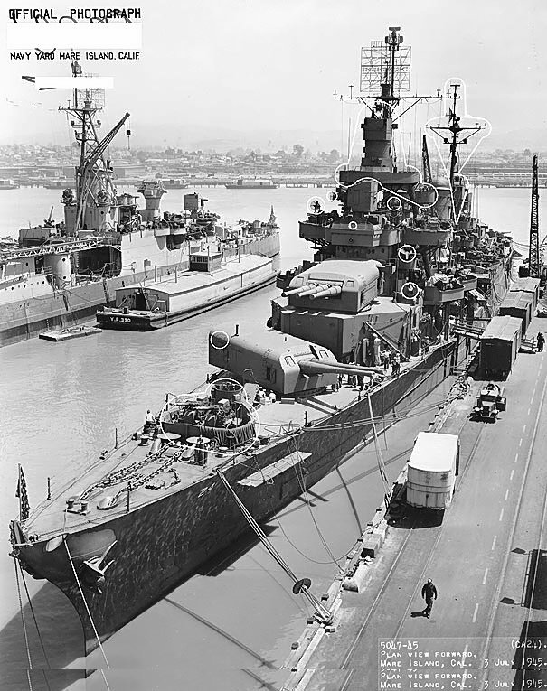 The U.S. Navy heavy cruiser USS Pensacola (CA-24) at the Mare Island Naval Shipyard, California (USA), on 3 July 1945, at the end of her final overhaul. Circles mark recent alterations to the ship. Note her main battery of twin and triple eight-inch gun turrets. USS Indianapolis (CA-35) and the lighter YF-390 are at left.